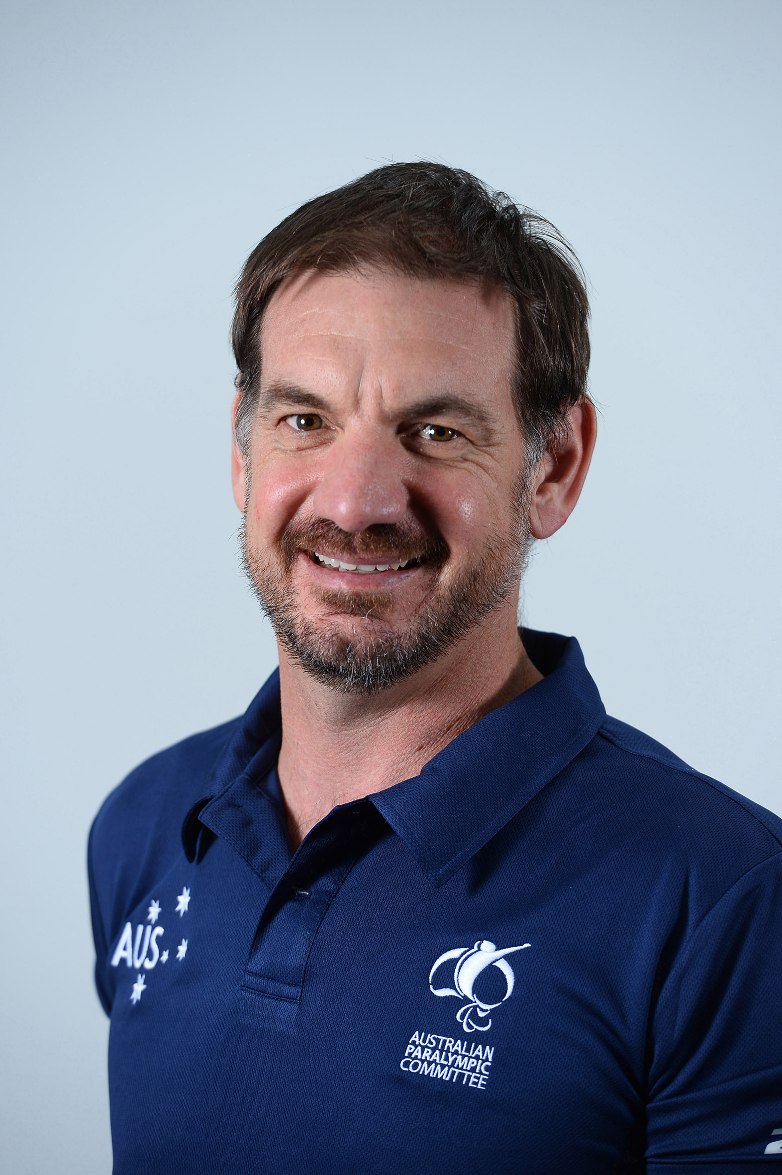 Portrait photograph of Gavin Bellis taken at team processing session for shadow members of 2016 Australian Paralympic team